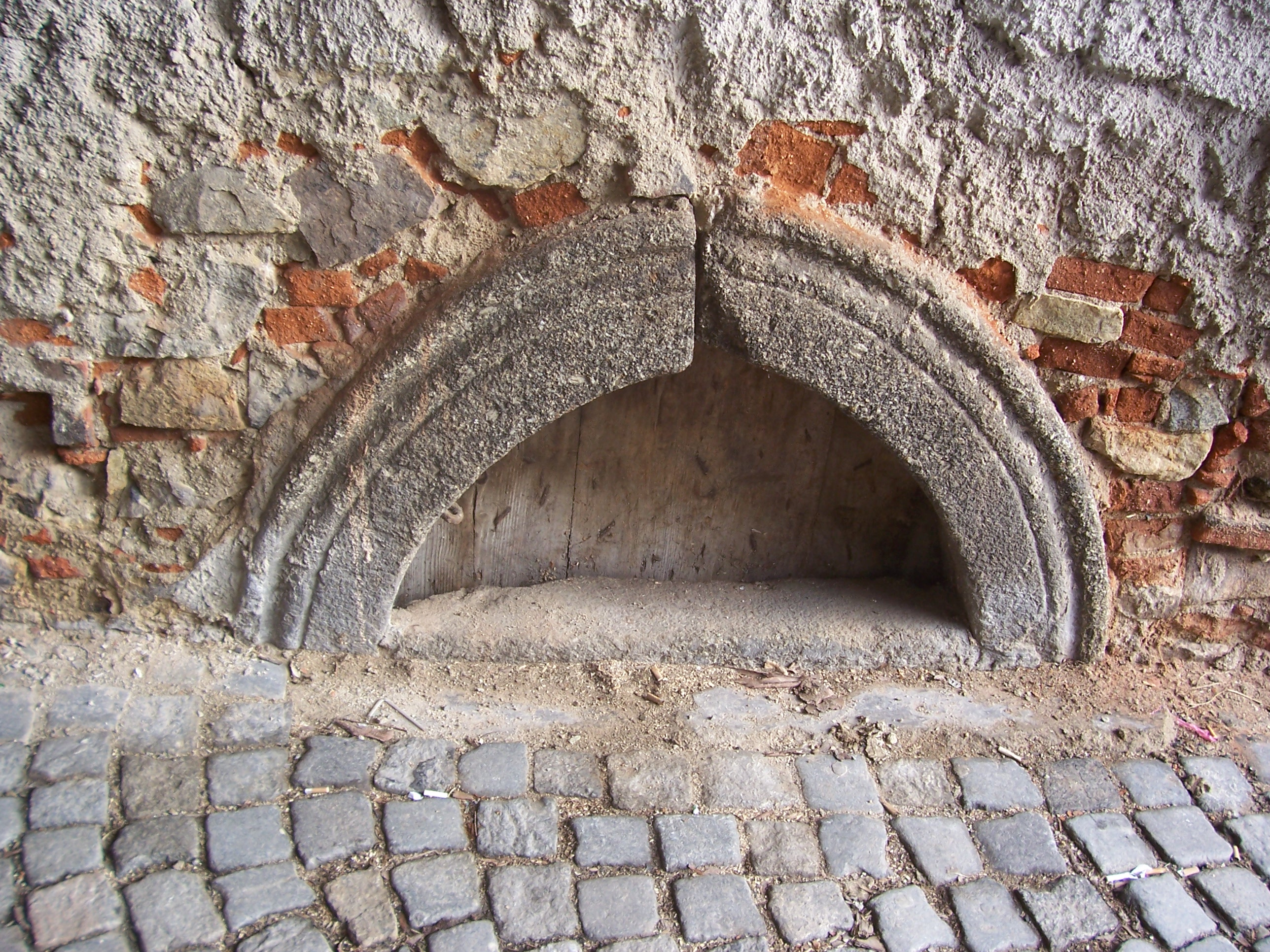 Parts of the former Old synagogue in the town of Milevsko, Písek District, Czech Republic